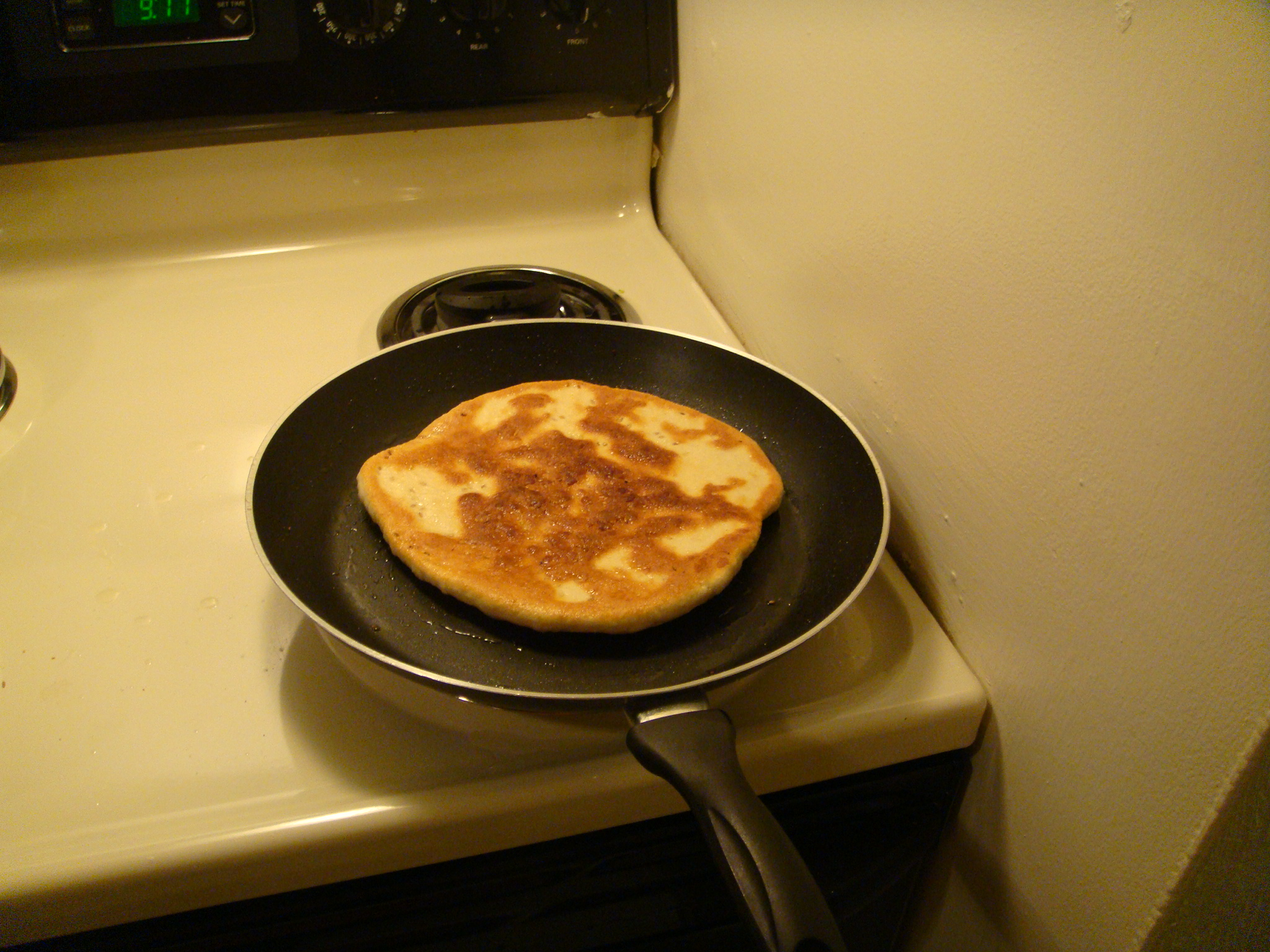 Laobing, a traditional Chinese pan-cake, made in my apartment. It mixed flours, salt, eggs, green onion and other seasons.